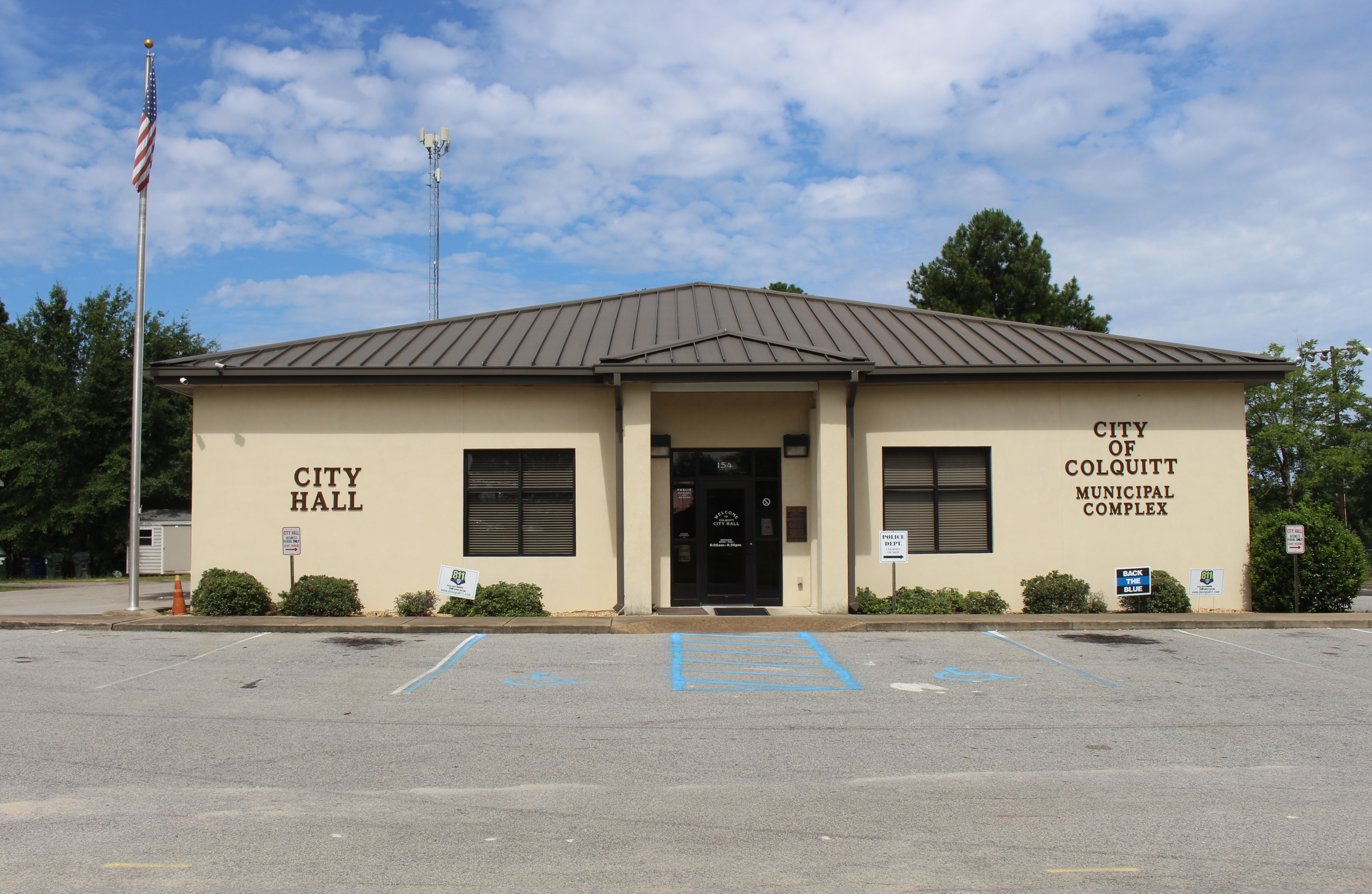 Colquitt City Hall Municipal Complex, Colquitt, Miller County, Georgia